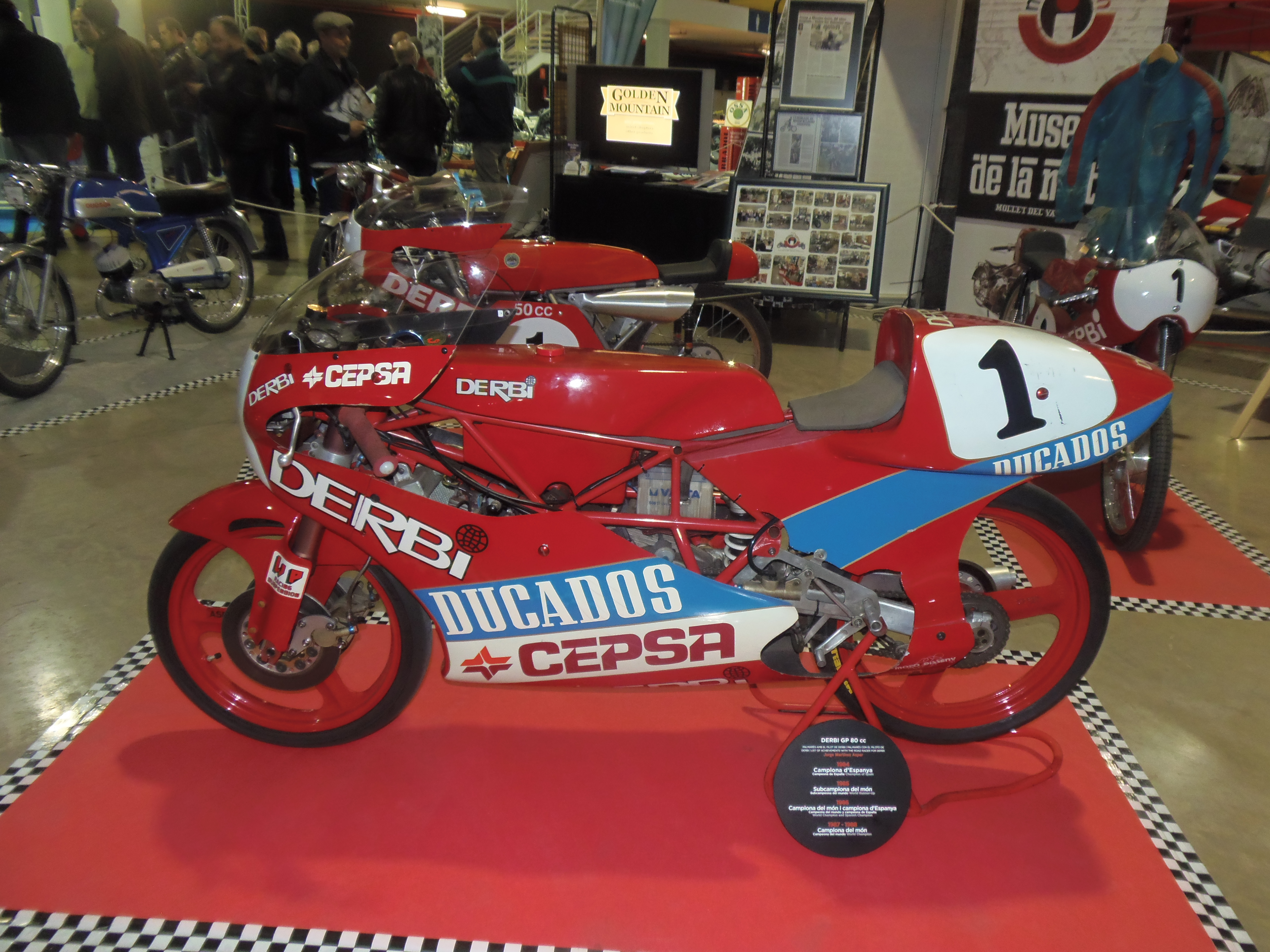 Derbi GP 80cc 1989. World Champion in 1989 ridden by Champi Herreros. Isern Motorcycle Museum, Mollet del Vallès (Catalonia).